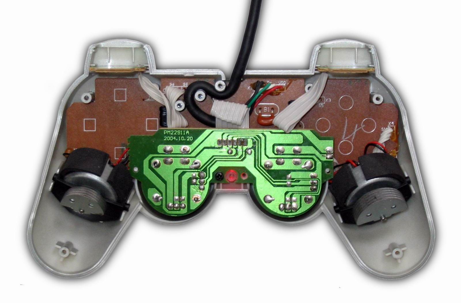 Interior of a gamepad for USB with ForceFeedback